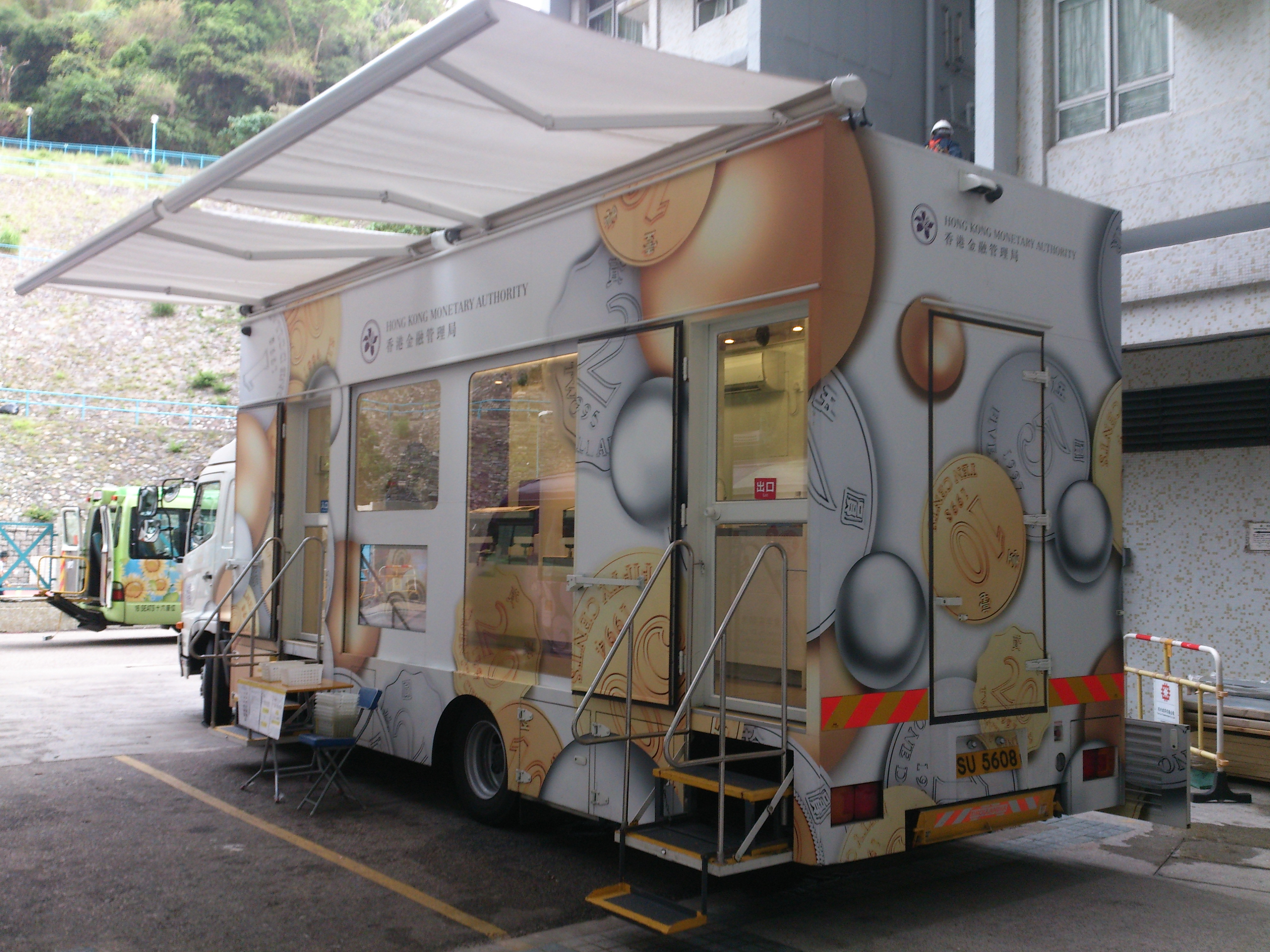 HKMA Coin Cart